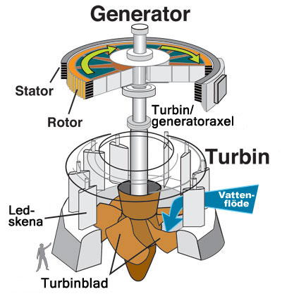 Hydraulic turbine and electrical generator, cutaway view.